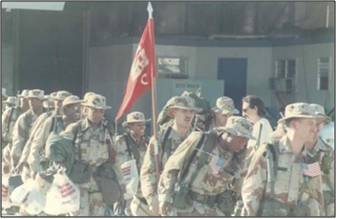 Southwest Asia Oct 1990-Jun 1991. - Desert Shield/Storm